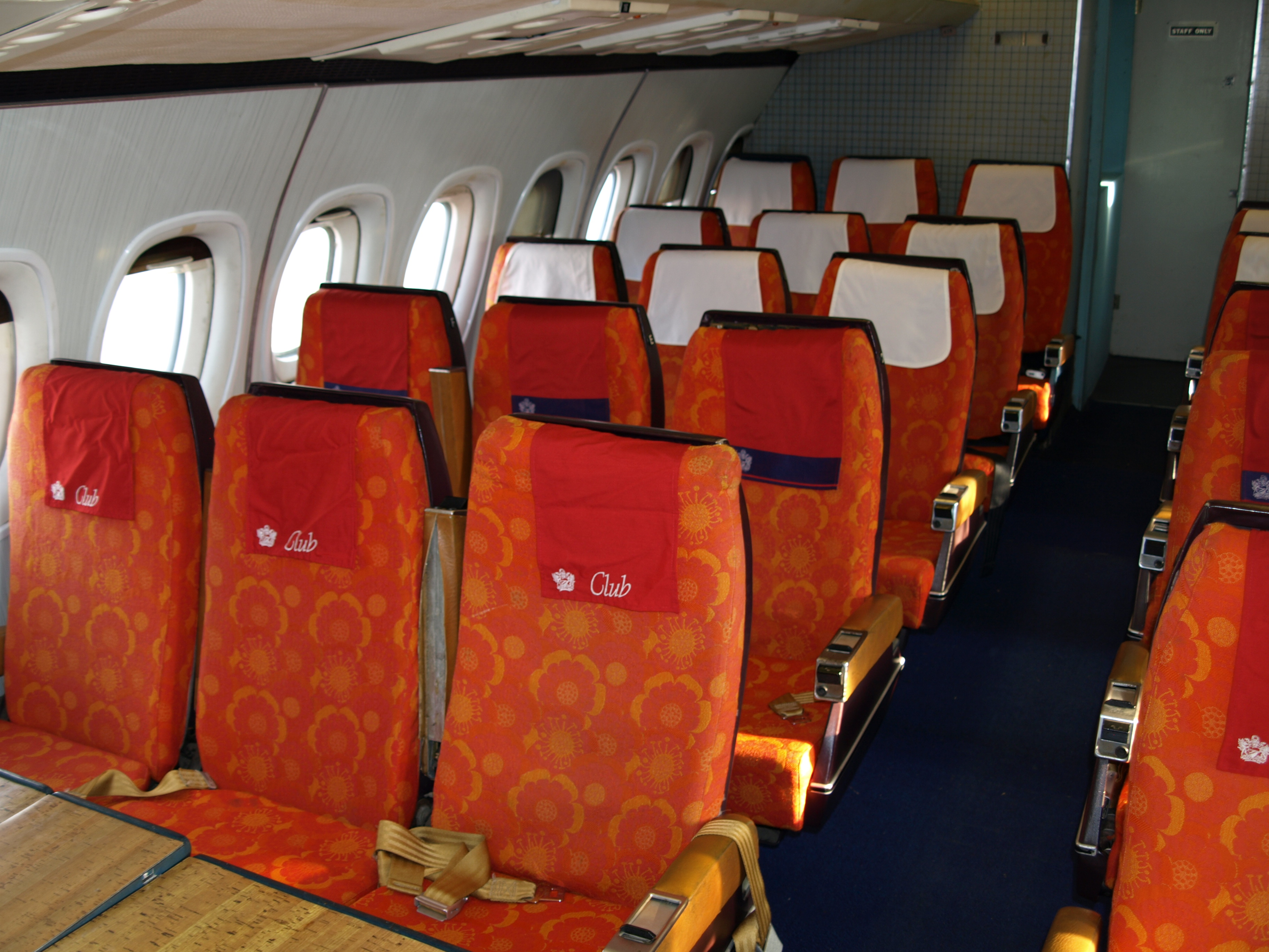 Passenger cabin of Hawker Siddeley Trident aircraft, registration G-AVFH, preserved and on public display (in October 2009) at the de Havilland Aircraft Heritage Centre, London Colney.